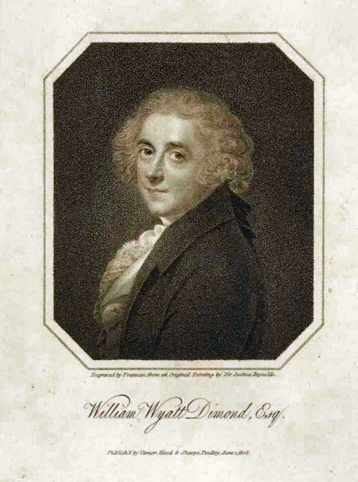 The actor-manager William Wyatt Dimond (c1752-1812) by Sir Joshua Reynolds (1723 – 1792)